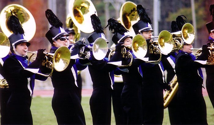 This photograph was taken by UNHWMB Staff Photographer/Videographer Erik Evensen (UNH '01) during the fall performance season of the 2002-2003 UNH Wildcat Marching Band.